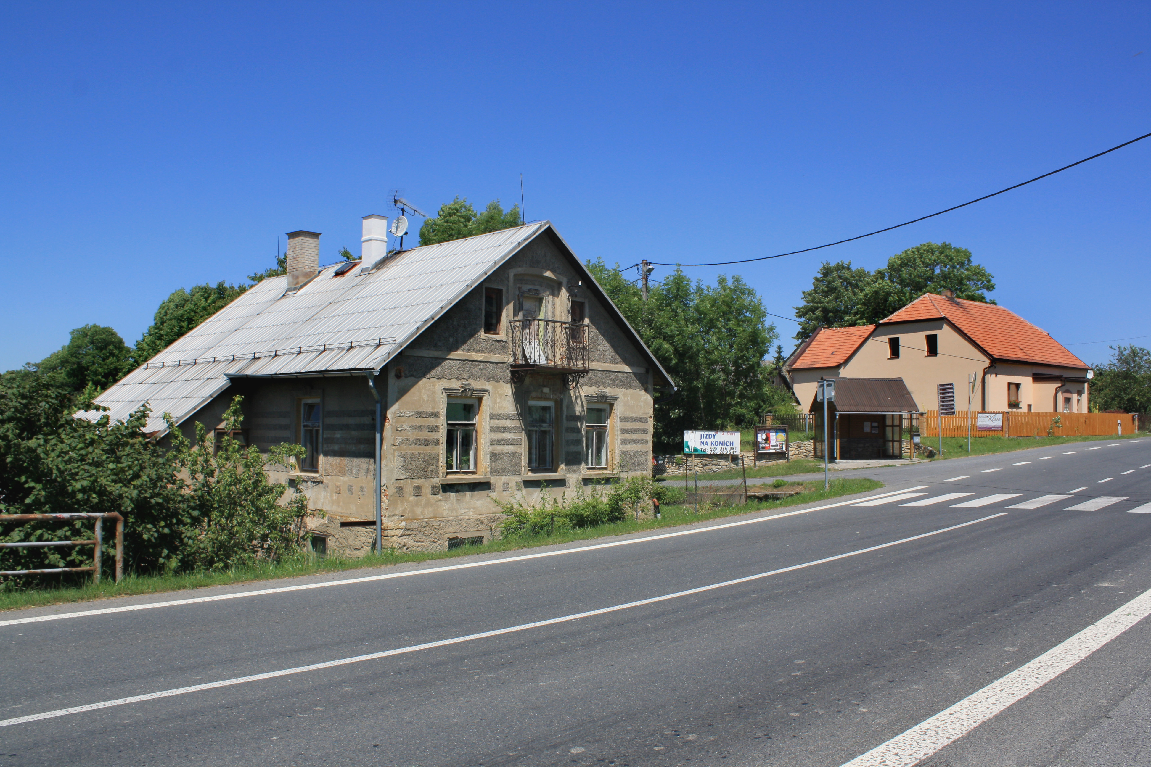 Road No. 34 in Květná, Czech Republic